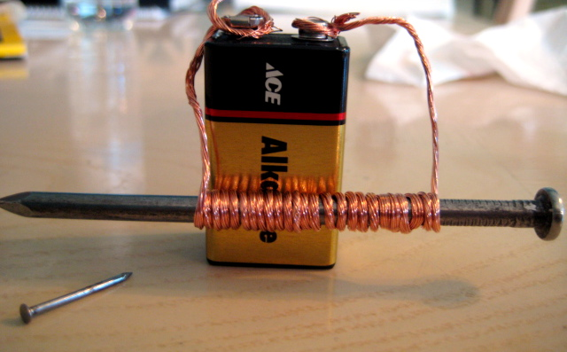 A homemade electromagnet created using a 9 volt battery, a length of copper wire, and an iron nail